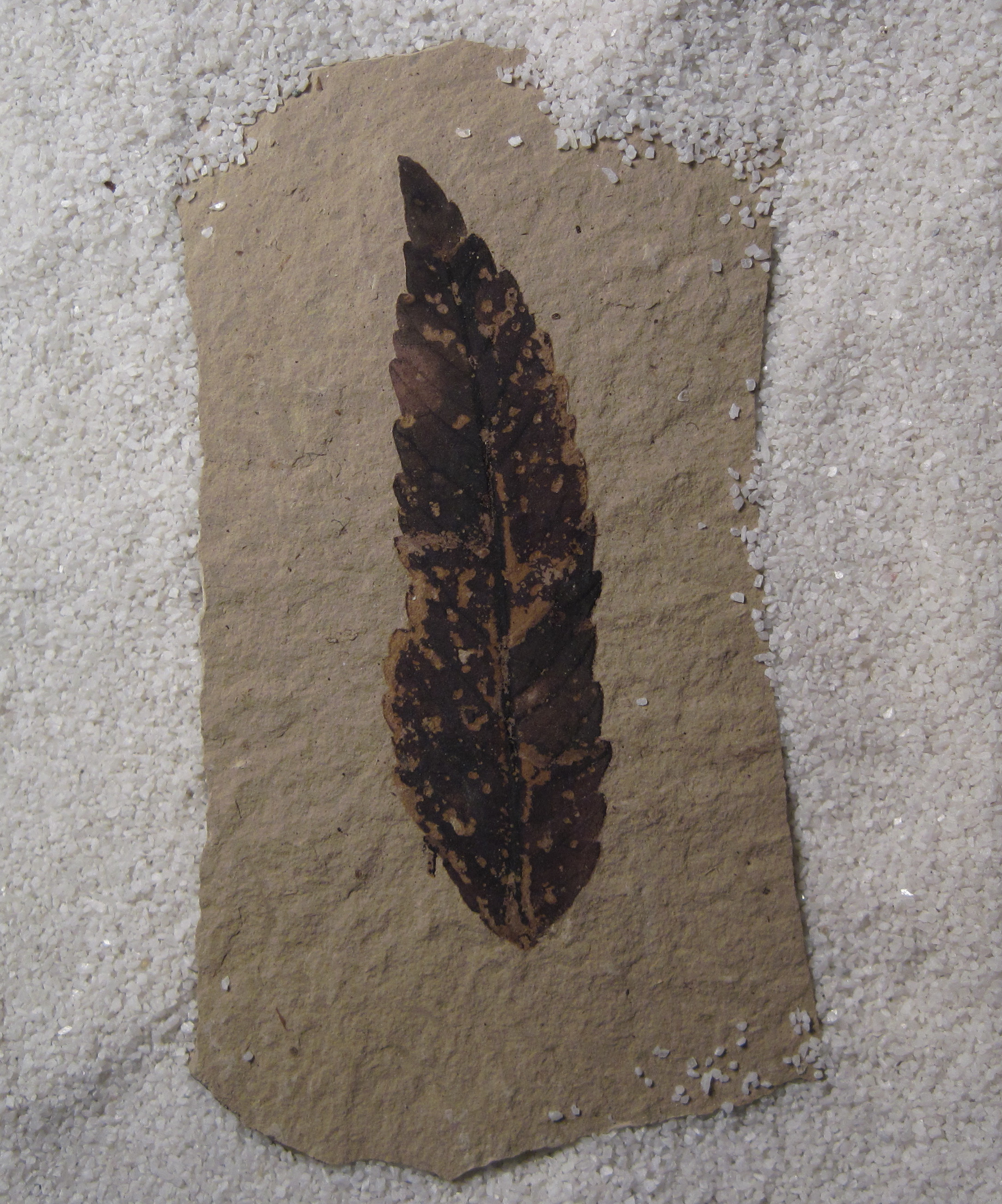 A complete Rhus malloryi leaf, part side. Ypresian, Latest Early Eocene; Tom Thumb Tuff member, Klondike Mountain Formation, Republic, Washington, U.S.A. Stonerose Interpretive Center, Republic, Ferry County, Washington, U.S.A. Collection number SR 10-29-02 A